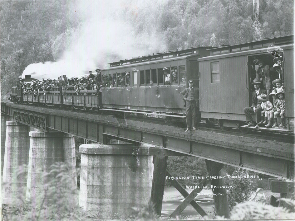 Walhalla, Victoria Railway ca1910, Excursion train crossing Thomson River